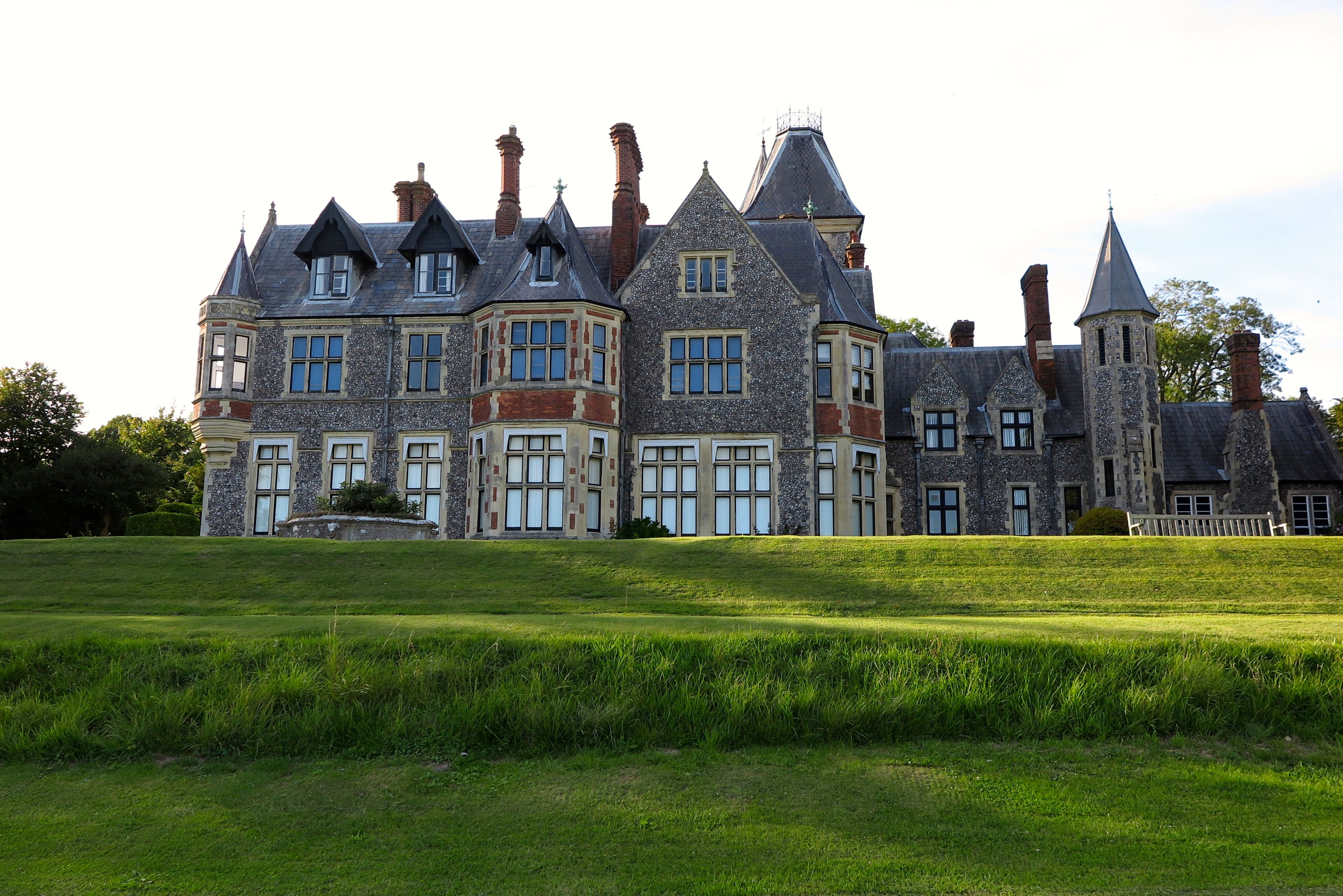 Southerly view of Neo-Gothic-style building, Sompting Abbotts Preparatory School, designed by architect Philip Charles Hardwick in 1856